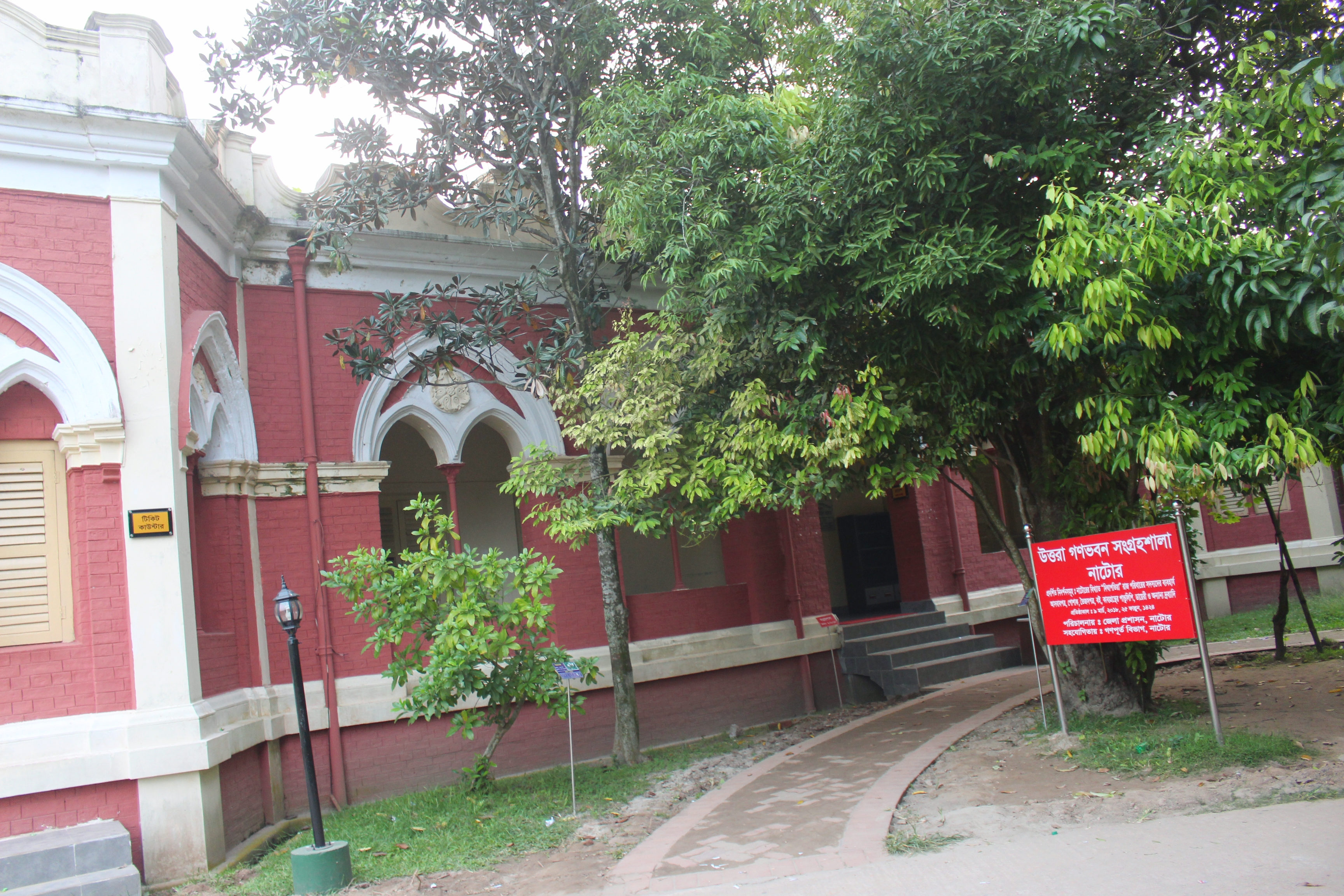 Uttara Gonovaban Museum (main)